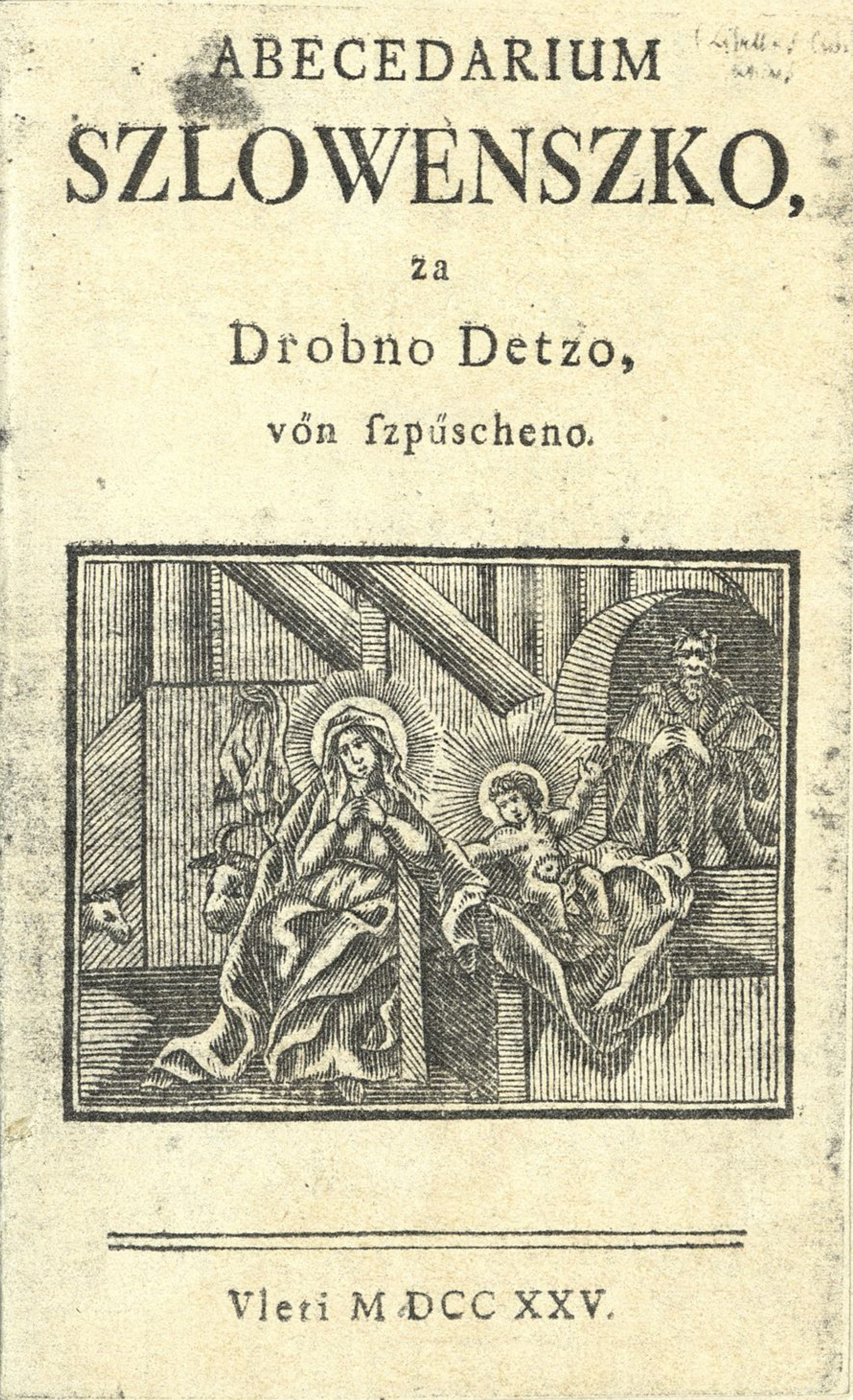 Abeczedarium Szlowenszko, first prekmurian (prekmurščina) ABC-book in 1725